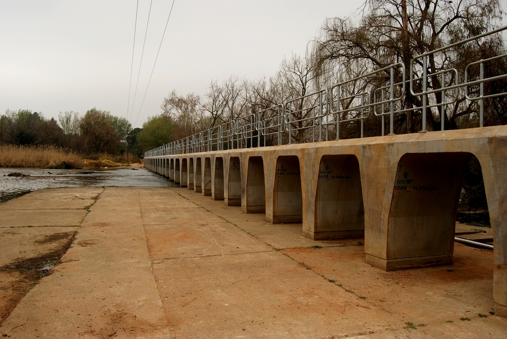 Author: Igmar Grewar